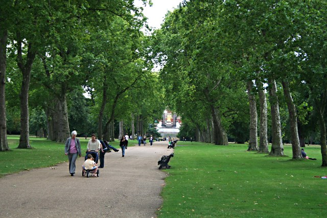 A Walk in the Park An avenue in Kensington Gardens leading down to the Albert Memorial.